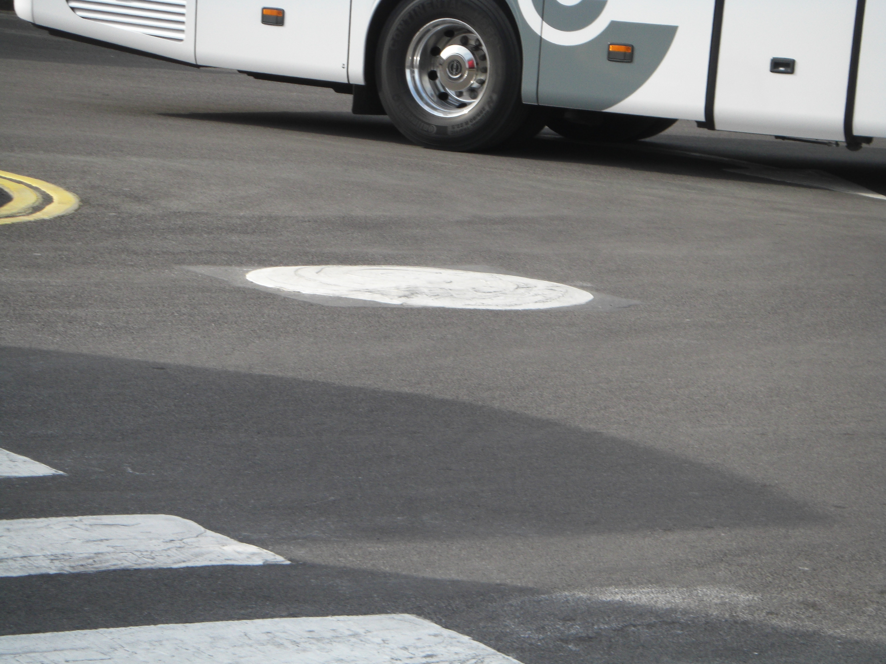 A mark in the car park at the Stonehenge site in Wiltshire, England. This circle marks the spot where one of three large Mesolithic post once stood.